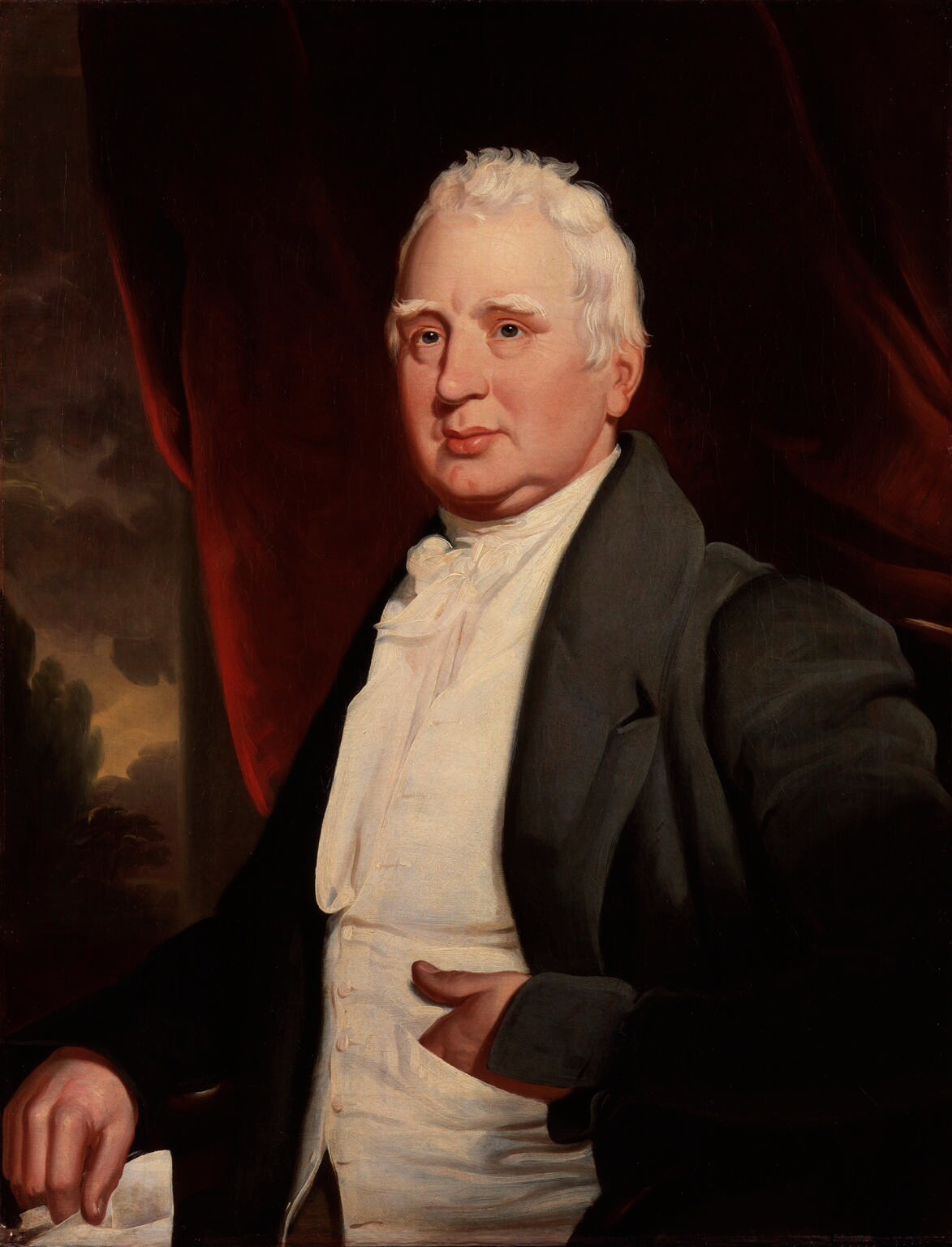 Portrait of William Cobbett for use on the William Cobbett article.